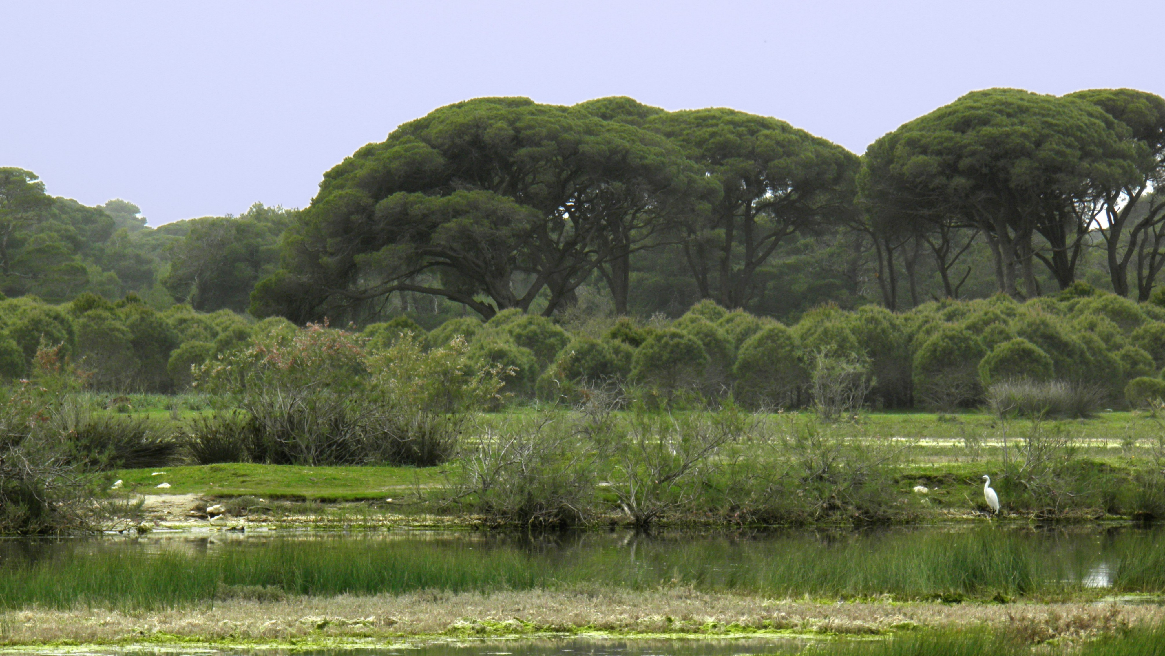 This is a photography of Natura 2000 protected area with ID GR2320001